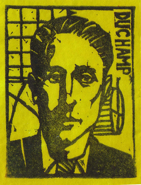 Mail Art erasercut from Paul Jackson, aka Art Nahpro, (artist)